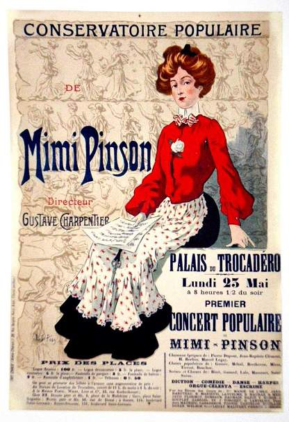 Poster advertising concert at the former Palais du Trocadéro by the "Conservatoire Populaire de Mimi Pinson" (founded 1902 by Gustave Charpentier).